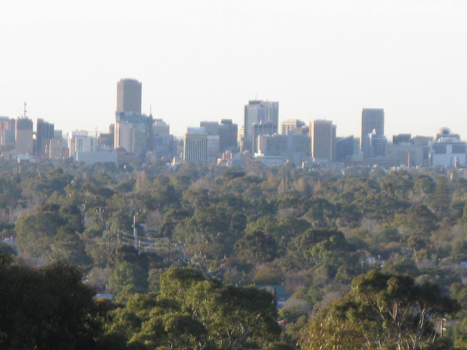 Looking north to Adelaide CBD from Crossing Loop at Sleeps Hill railway station, Winter 2008.